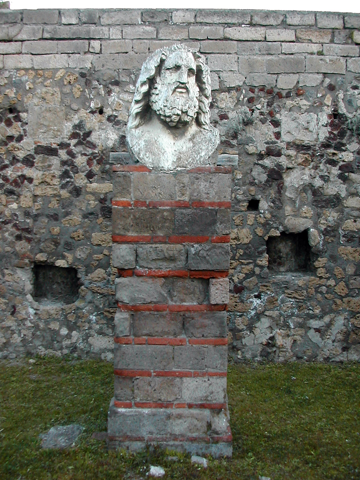 The Temple of Jupiter dates back to the second century BC. When Pompeii became a Roman colony in 80 BC, the temple was transformed into a Capitolium dedicated to the Capitoline Triad of Jupiter, Juno, and Minerva. Placed upon a high podium, approximately ten feet tall with an entry staircase at the front, its axis formed the formal axis of and focal point of the Forum; it had two series of double columns dividing it longitudinally, typifying a Greek influenced Roman temple, and its back wall was veneered in marble. similarly to the Temple of Apollo, the floor of the Temple of Jupiter had a rhomboid polychrome stone pattern, arranged in imitation of perspective cubes (opus sectile). The Temple held a statue of Jupiter, constructed around 80 BC, of which only the head remains - seen here.